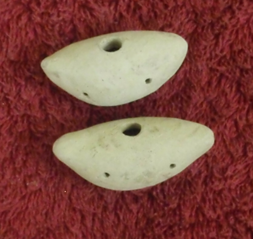 an traditional musical instrument of Assam of aerophone category, played in Bihu